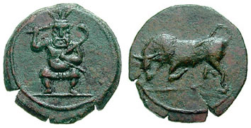 Hiberia, Balearic Islands. Ebusus (Ibiza. Circa 210-early 2nd Century BC. Æ 17mm (3.02 gm). Squatting Kabeiros, holding hammer in right hand, serpent in left Bull butting left. Burgos 708; Villaronga pg. 93, 22; SNG Morcom 15; Laffaille -.